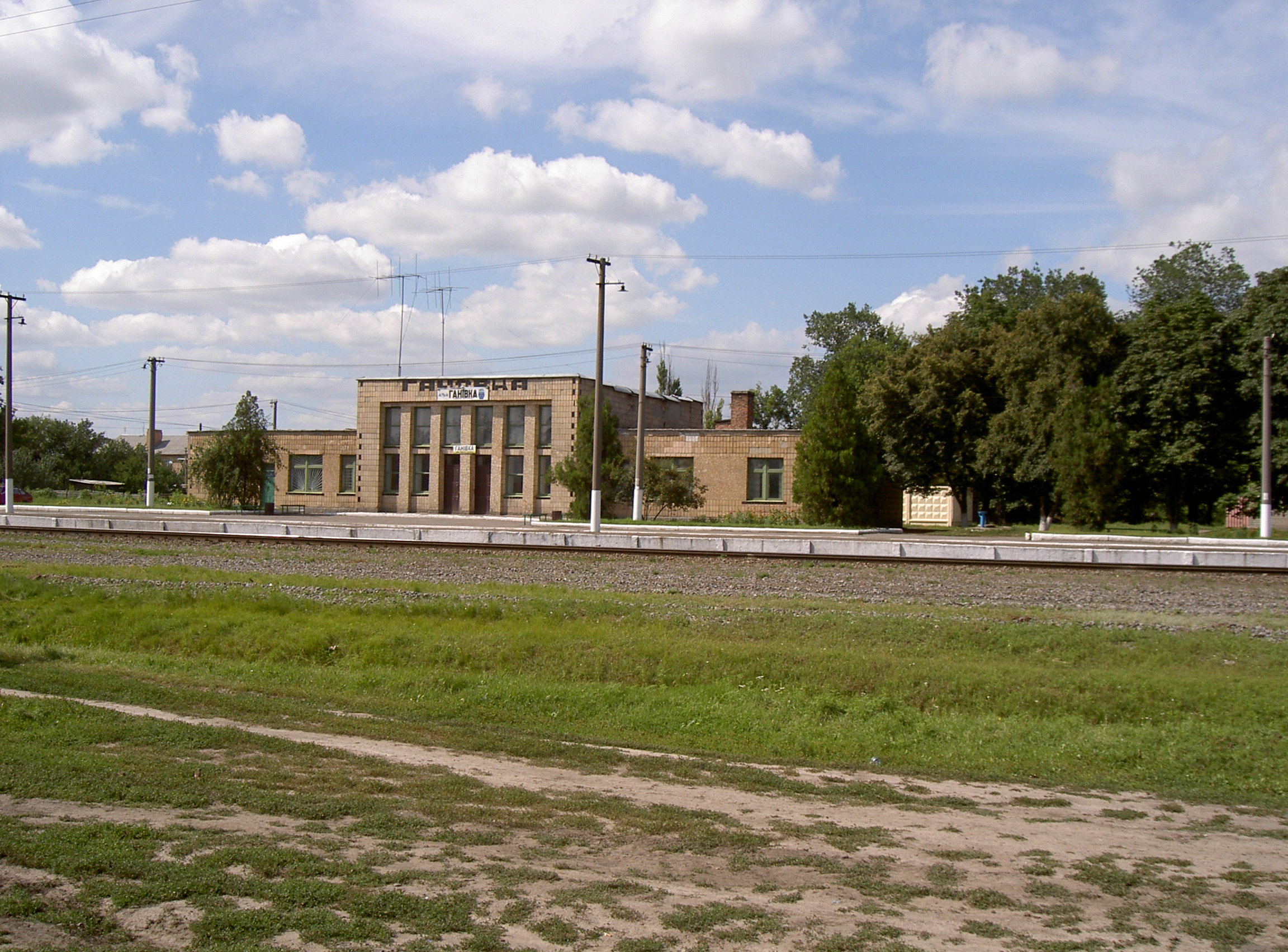 Railway Station of Lutovynivka / Hannivka, Lutovynivskyi District, Poltava Oblast, Ukraine